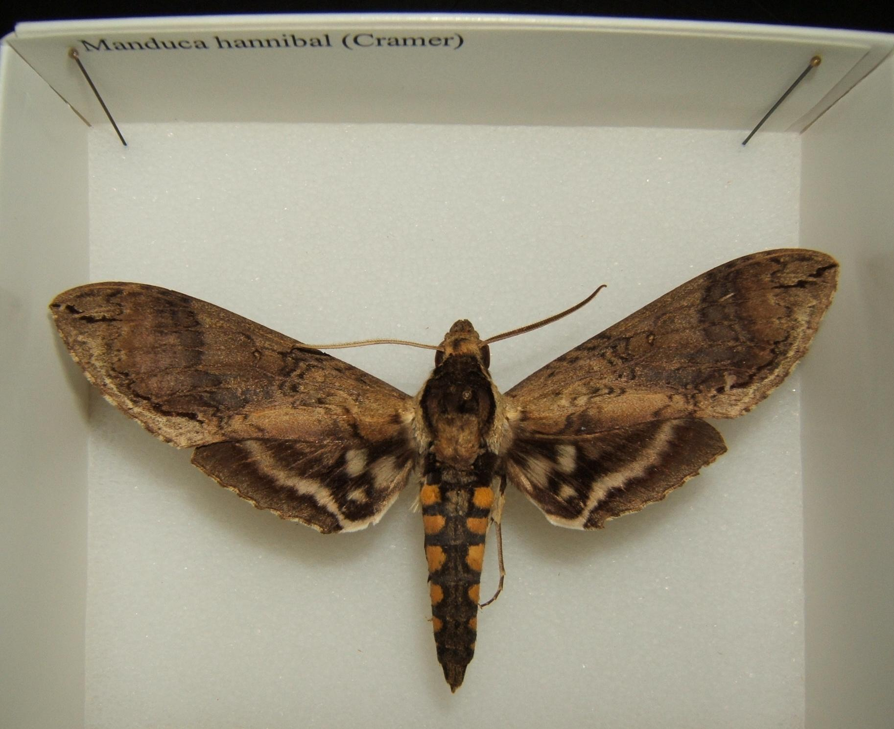 Manduca hannibal adult taken by Shawn Hanrahan at the Texas A&M University Insect Collection in College Station, Texas.